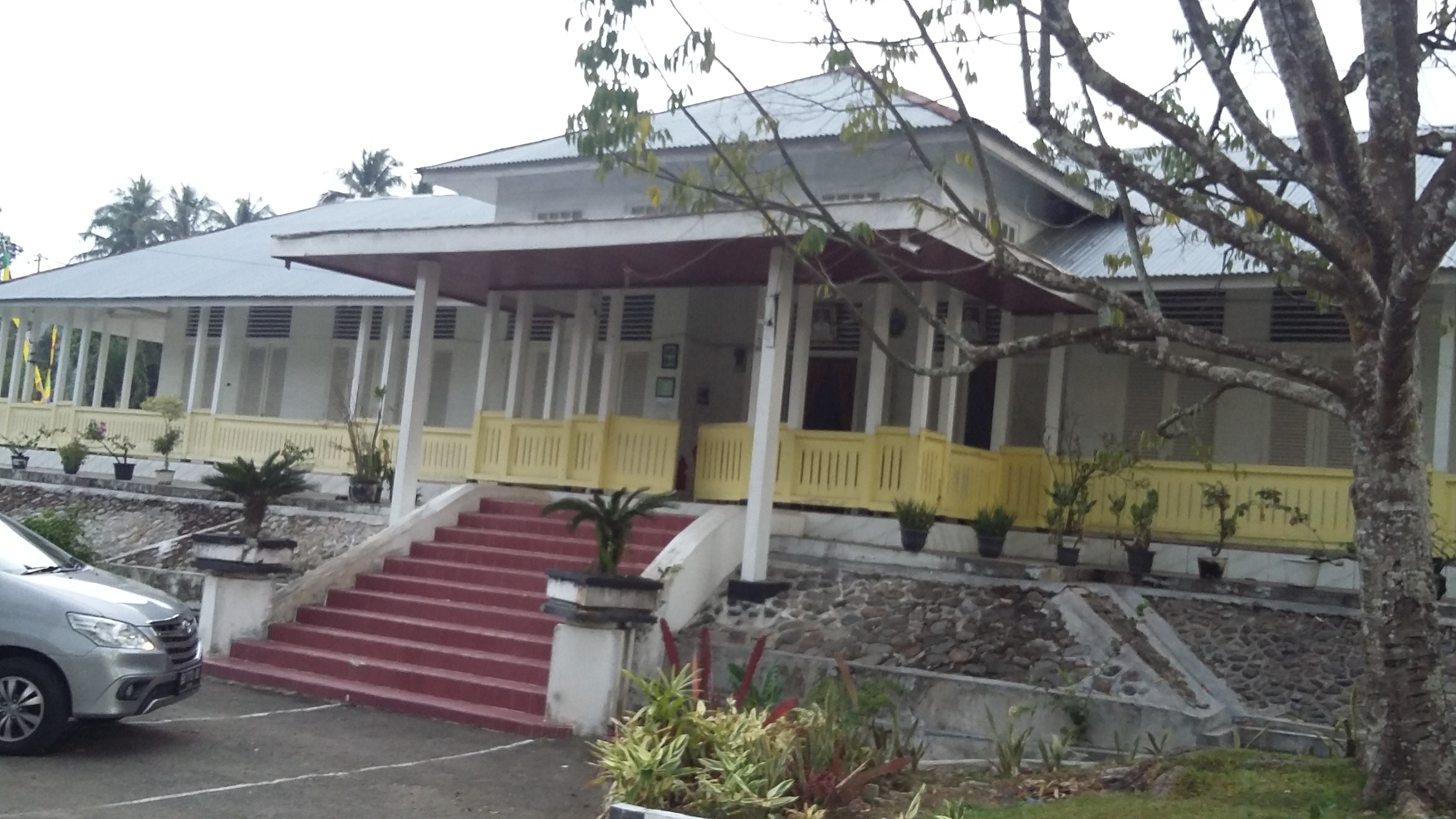 Government guest house at Kotanopan, Mandailing Natal Regency, North Sumatra Province, Indonesia